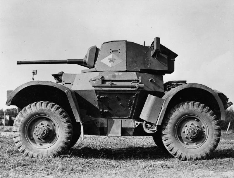 Tanks and Afvs of the British Army 1939-45 Daimler Mk I armoured car